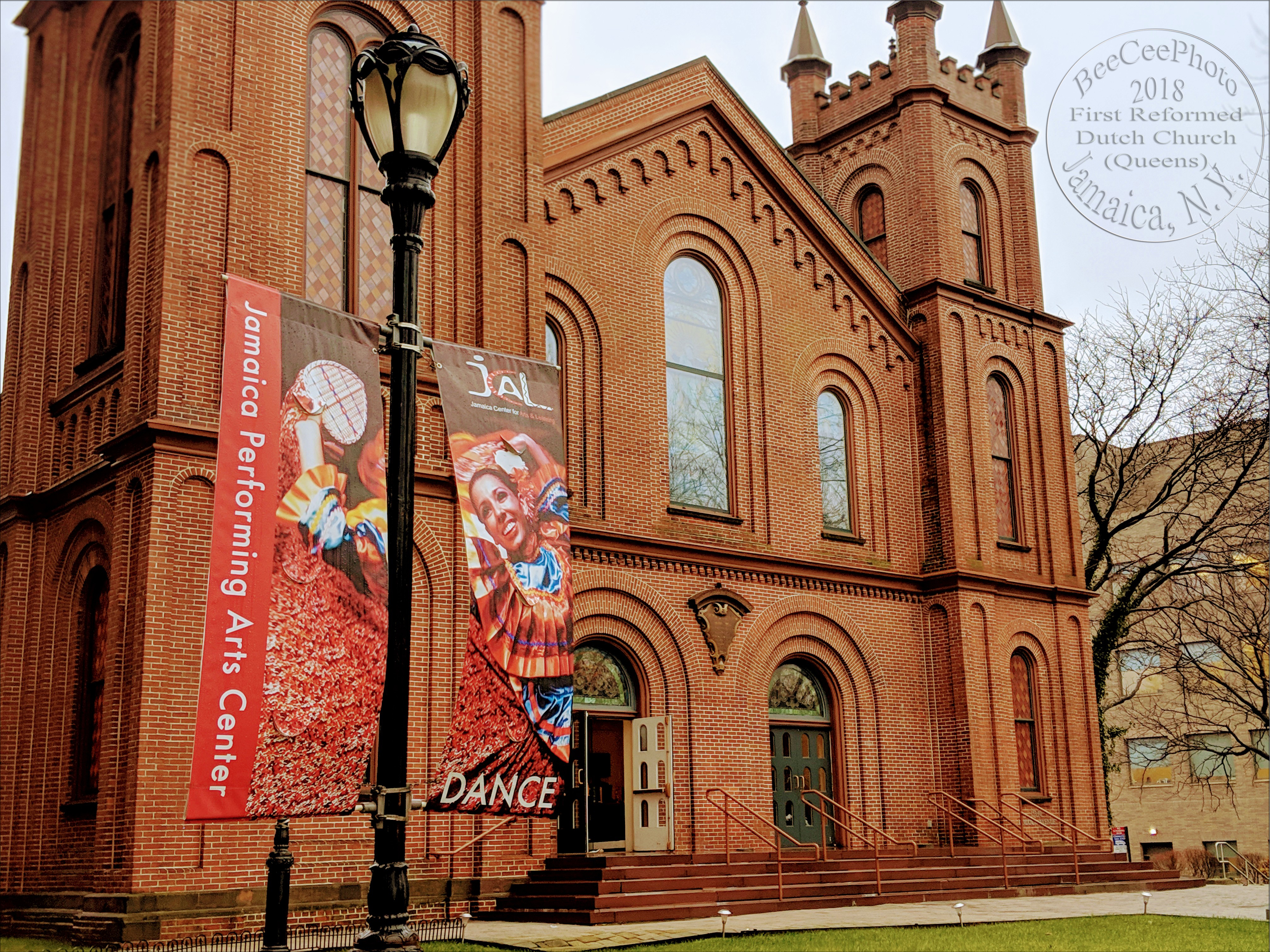 Jamaica Performing Arts Center (Landmarked)- First Reformed Dutch Church (Queens)